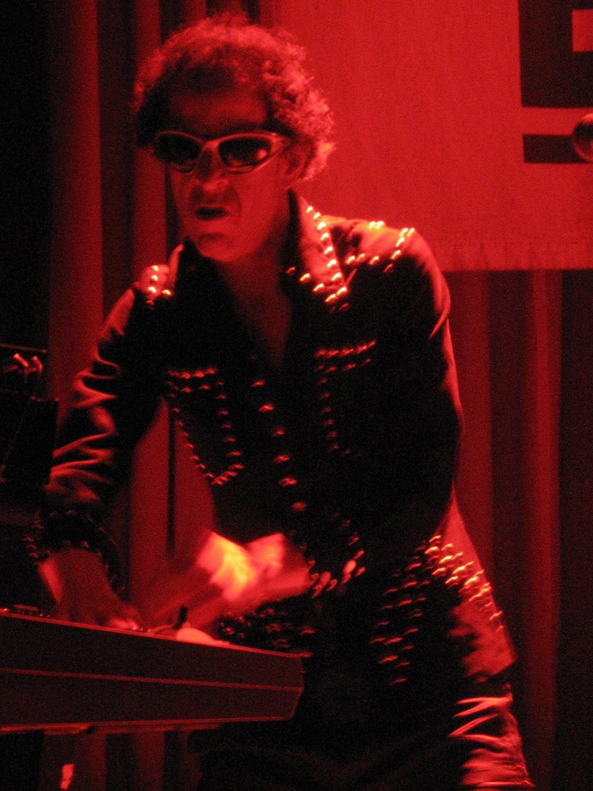 Martin Rev live in Madrid, 2005-09-10.